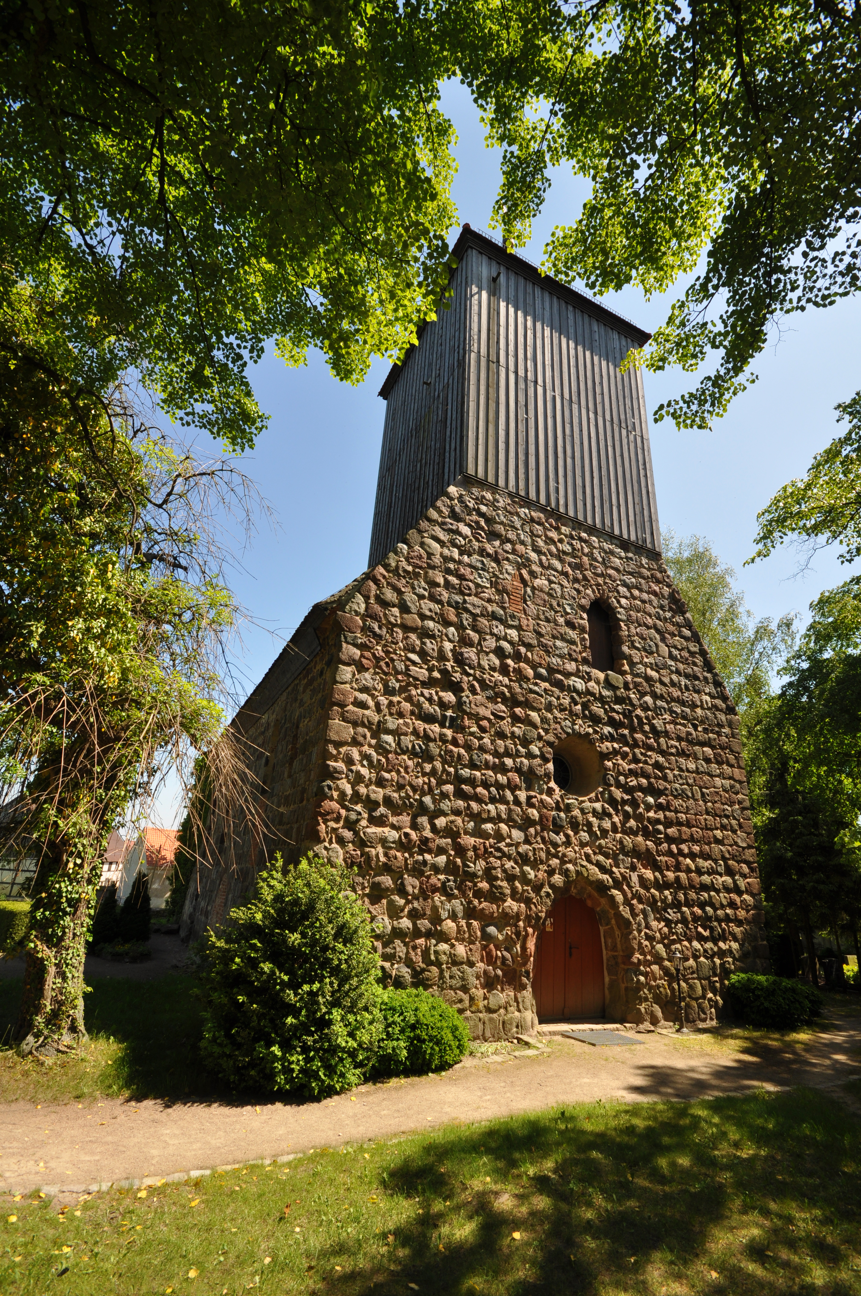 Fieldstone church in Dobberzin, steeple view